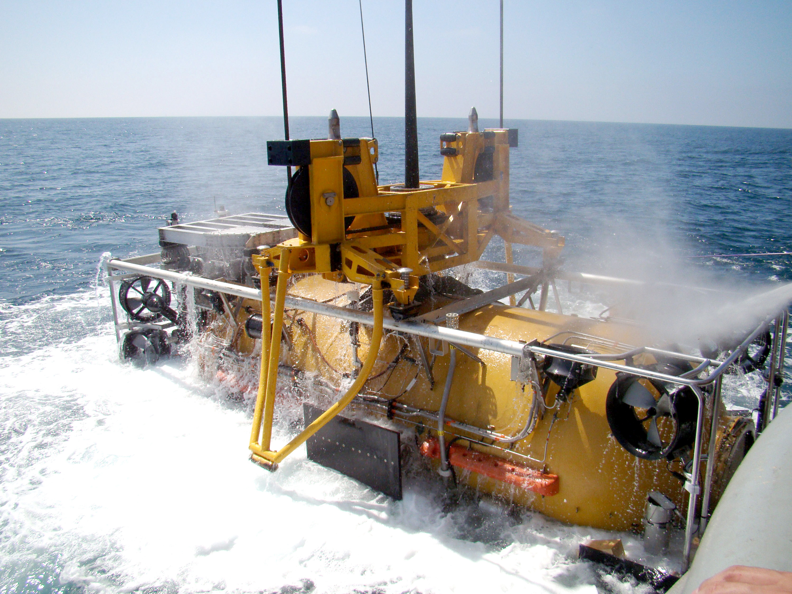 080918-N-7029R-115 SAN DIEGO (Sept. 18, 2008) The pressurized rescue module (PRM) is recovered from the water after performing a submarine rescue exercise with the Chilean submarine CS Simpson (SSK 21) off the coast of San Diego.